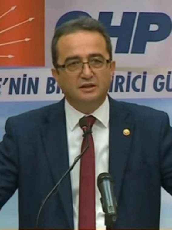 Turkish lawyer and politician Bülent Tezcan